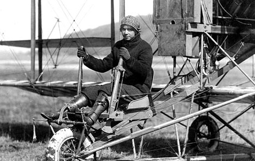 Ruth Bancroft Law, pioneer aviatrix, 1915.